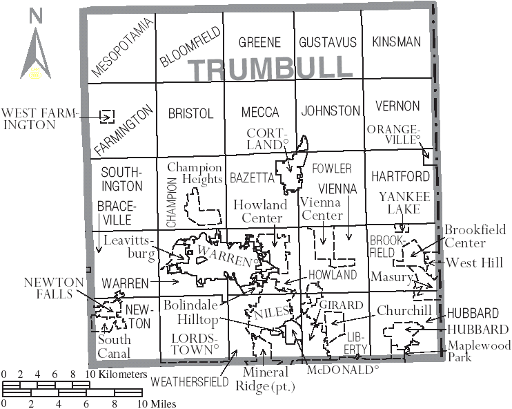 Map of Trumbull County, Ohio, United States with township and municipal boundaries